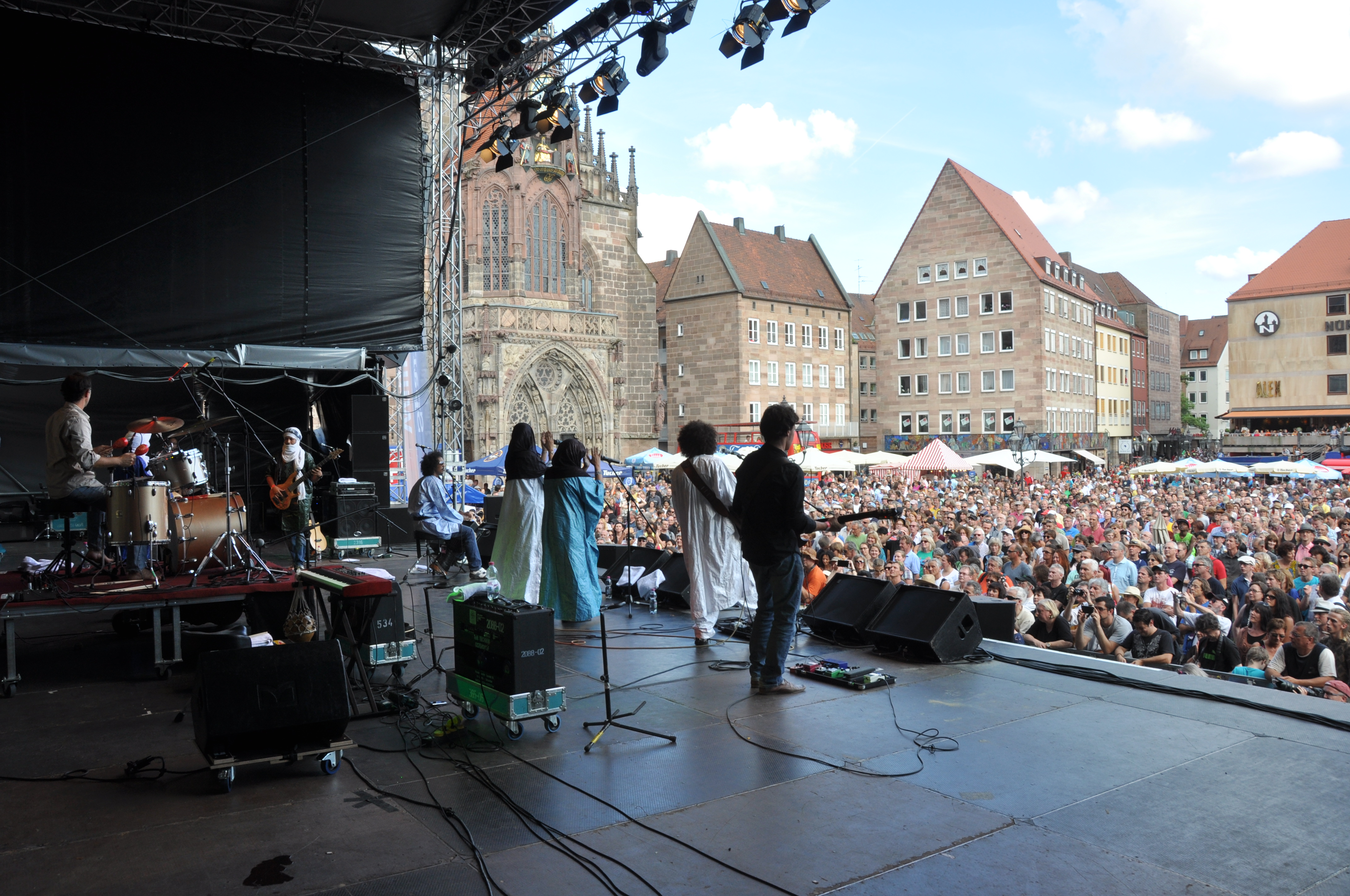 Tamikrest (Mali), appearance at the 39th music festival "Bardentreffen" 2014 in Nuremberg, Germany, Hauptmarkt stage